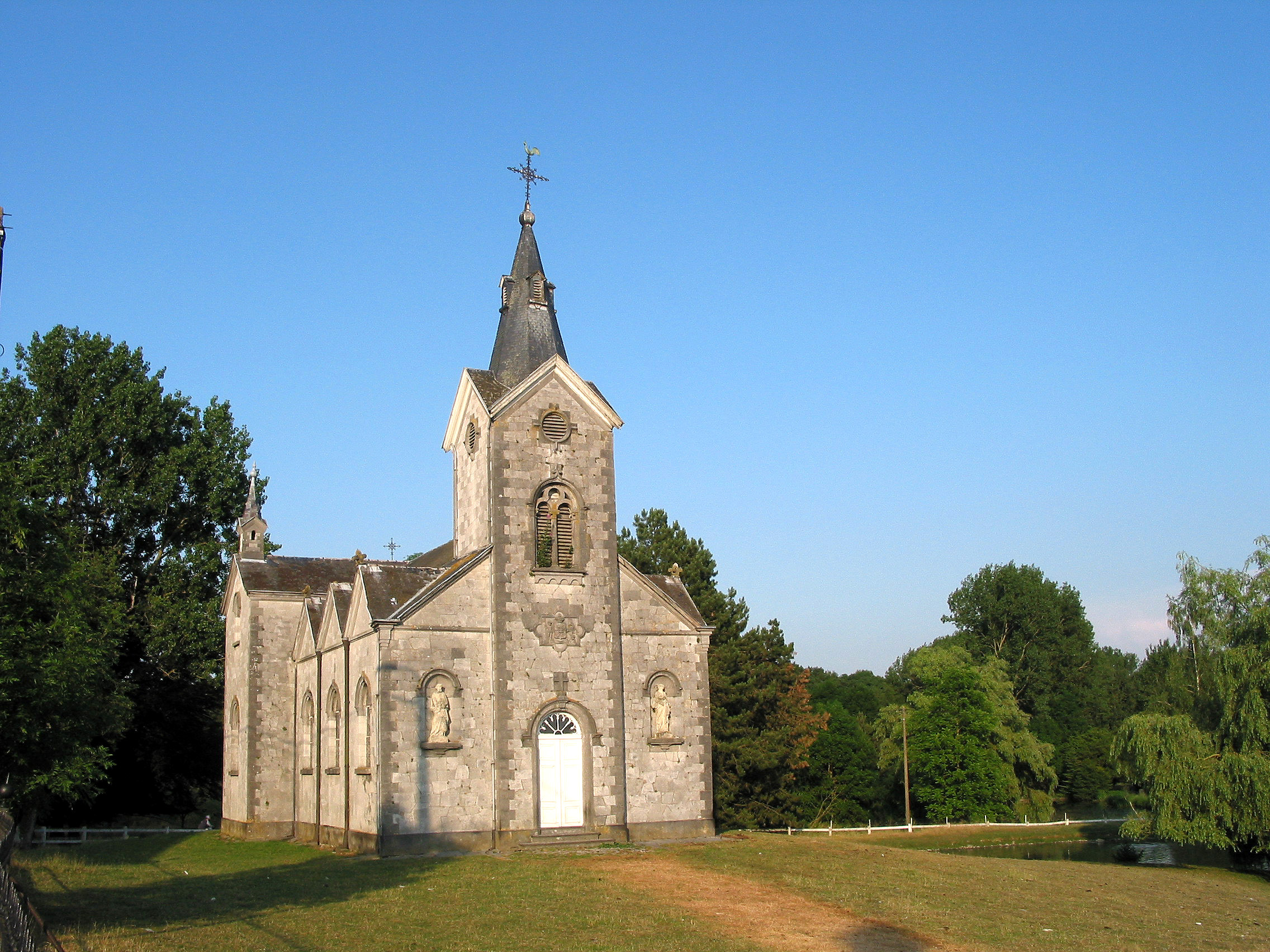 Vervoz (Belgium), the St. Hubertus chapel (1867).